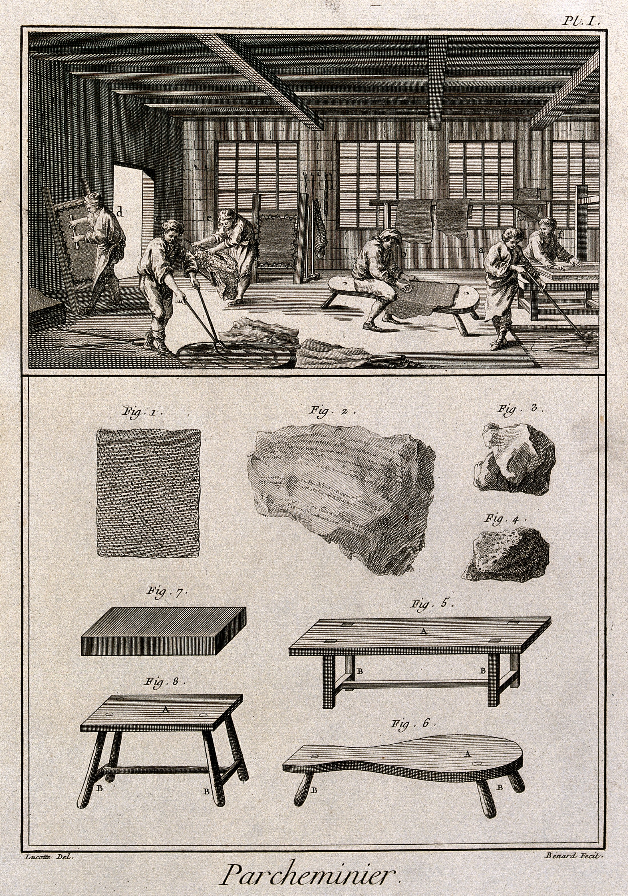 Parchment makers' workshop: interior view (a) stretching out the skins (b) elevations of various tables and skins used. Etching by Bénard after Lucotte. Iconographic Collections Keywords: J.-R. Lucotte; Benard; Jean Le Rond d' Alembert; Denis Diderot